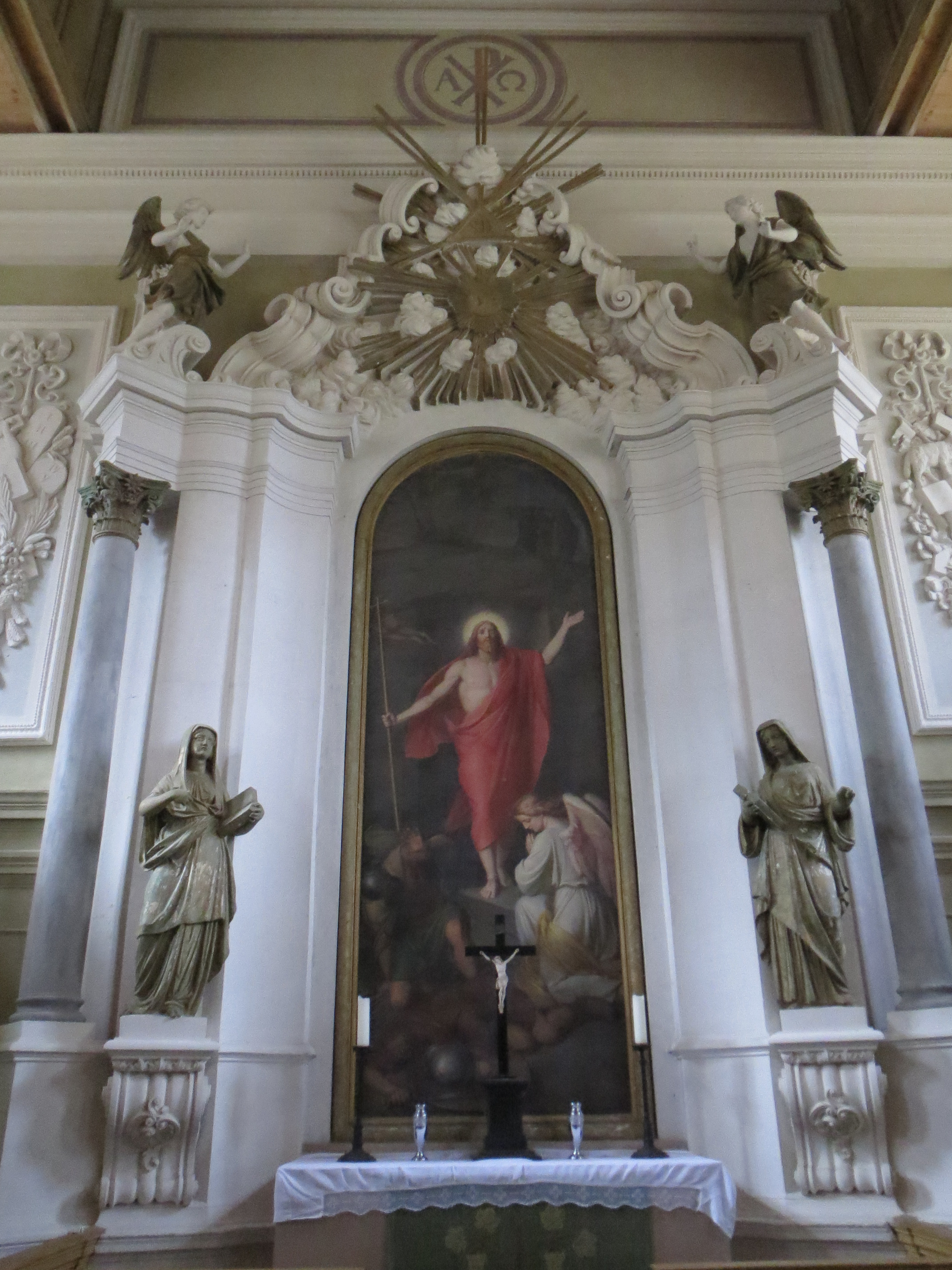 Church in : Altar